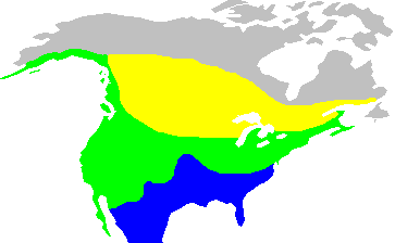 Approximate distribution map of the Song Sparrow (Melospiza melodia). Yellow indicates the summer-only range, blue indicates the winter-only range, and green indicates the year-round range of the species.